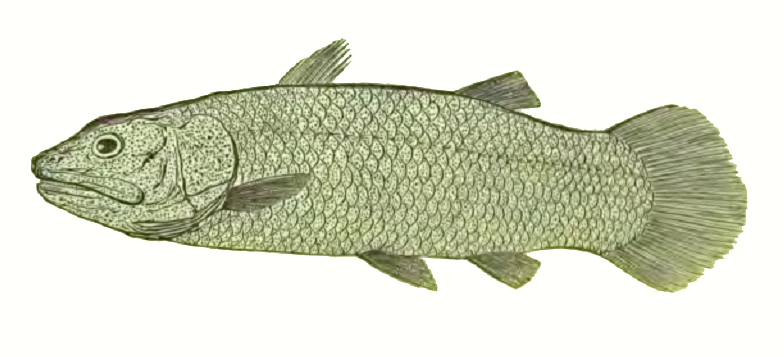 Life restoration of Macropoma, a coelacanth (Coelacanthiformes, Coelacanthidae) from the late Cretaceous of Europe